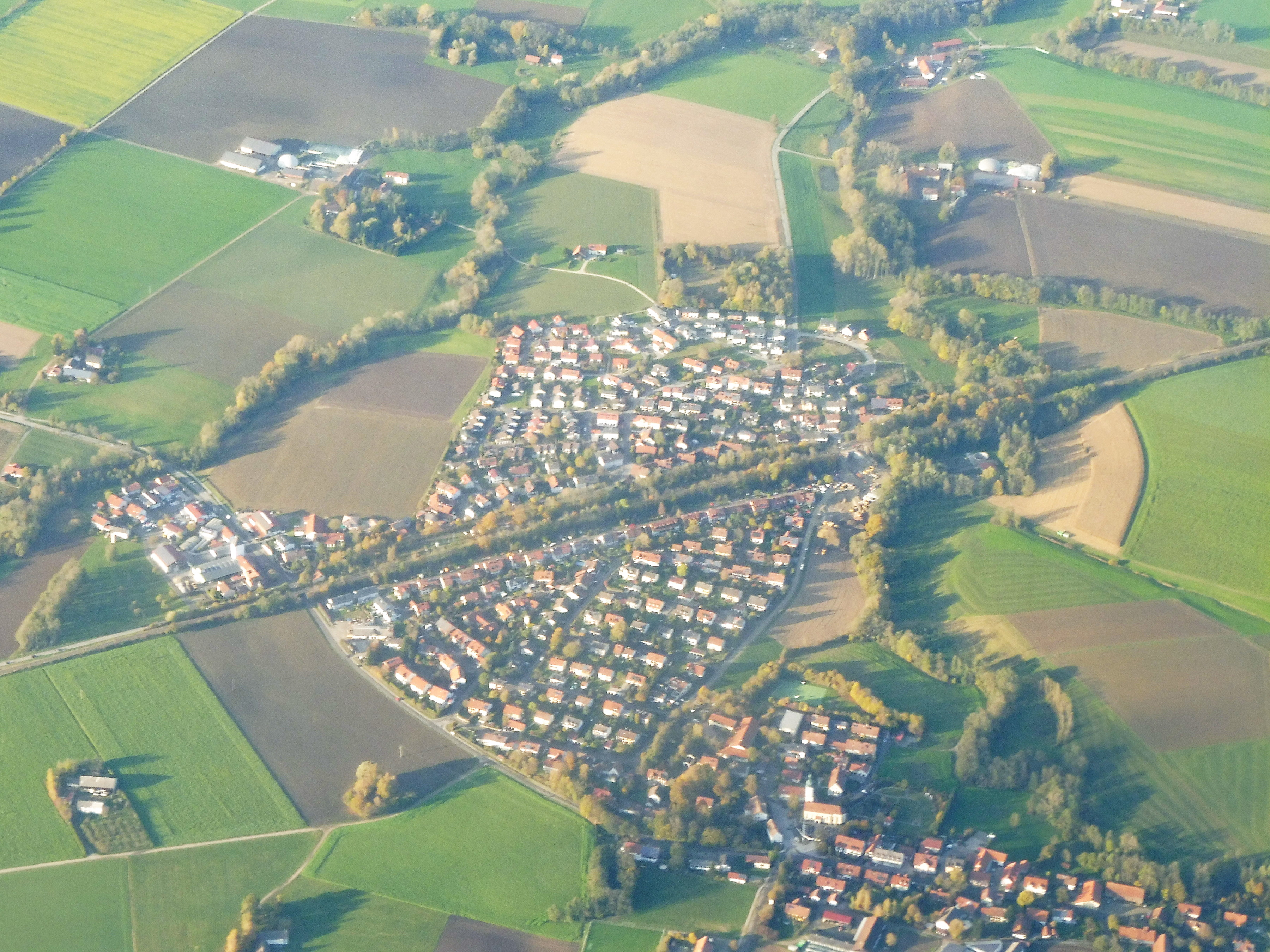 Aerial photograph of Walpertskirchen (District of Erding) in Upper Bavaria seen from the South-East, 2019